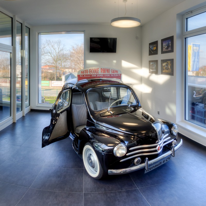 Renault 4CV in Auto Kout Centrum - authorized dealer Renault, Dacia, Hyundai. New, Demonstration and Used Cars for sale. Brandys nad Labem, Czech Republic.